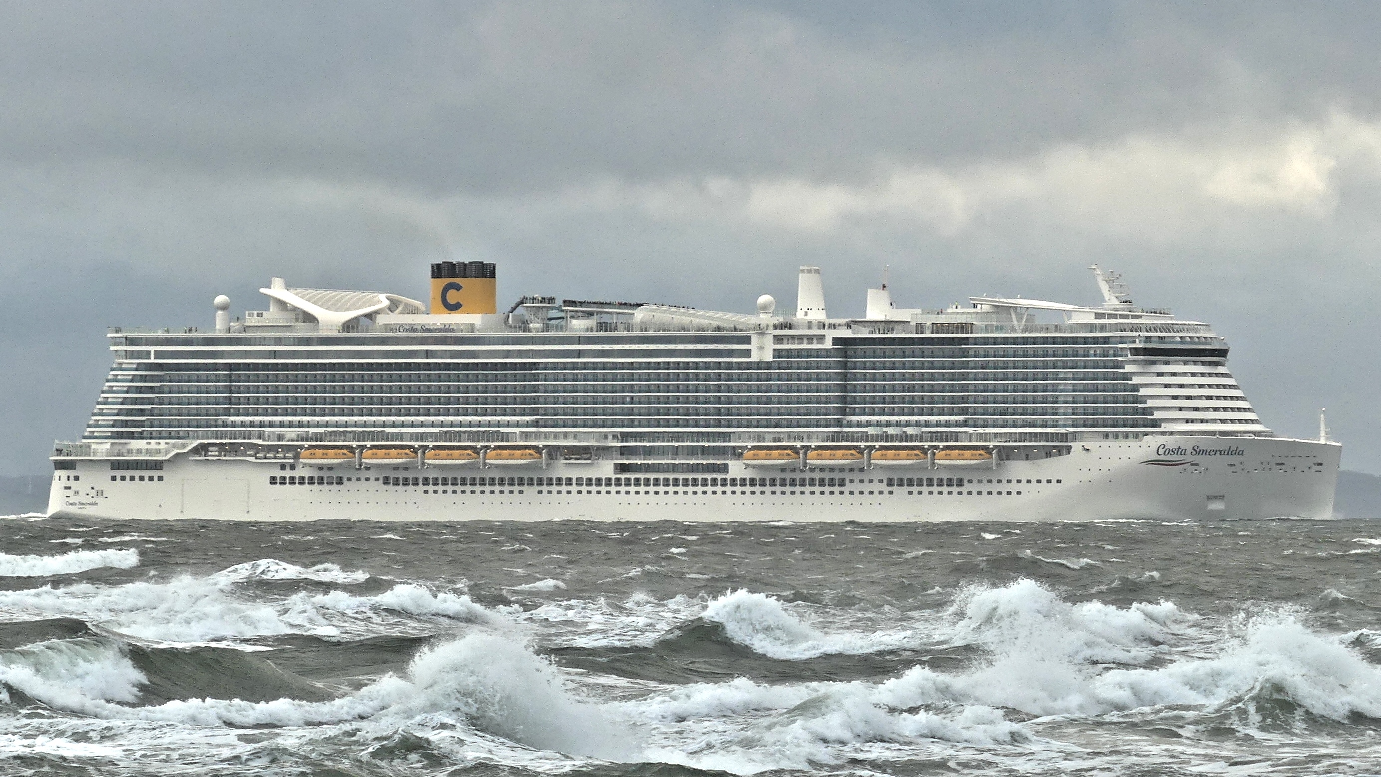 Costa Smeralda in Storebælt on her hay from Turku to Barcelona after delivery.